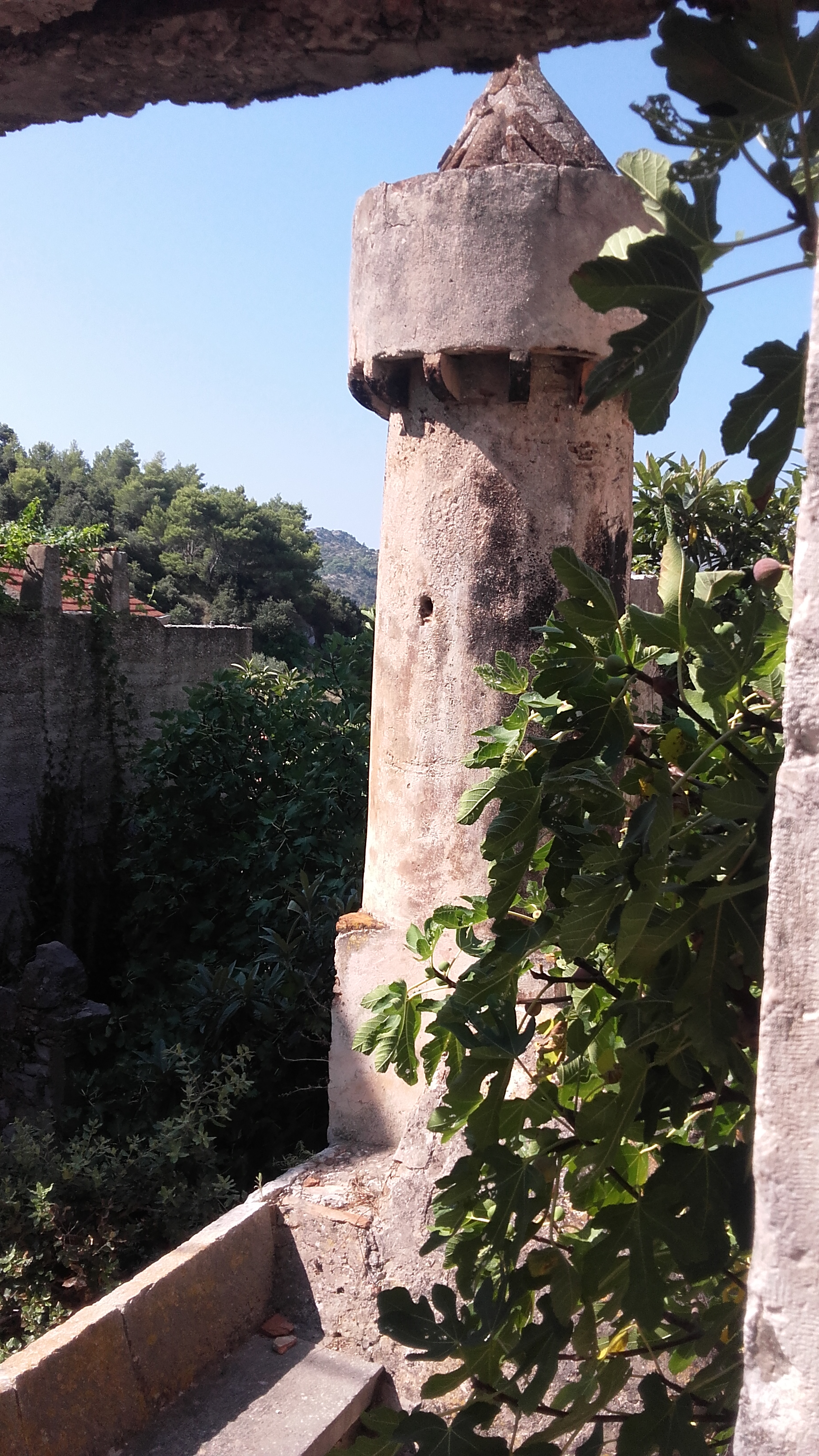 The oldest"fumar"on the island.